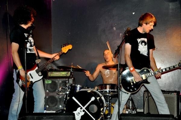 Rene SG performing live